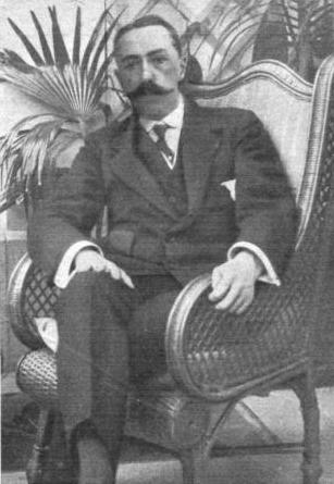 Jaime de Borbon, 1918